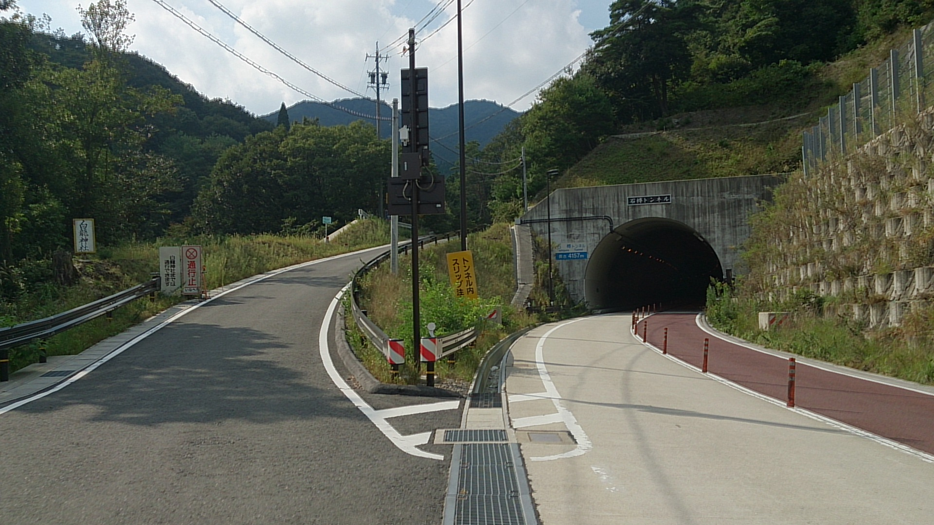 Ishigure tunnel, Route 421, Inabe, Mie